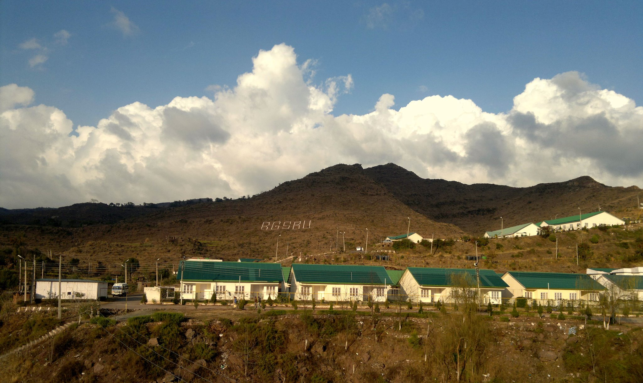 The image is taken by a B.Tech student Syed Aamer Shah in 2010 from the bathroom window of the hostel.